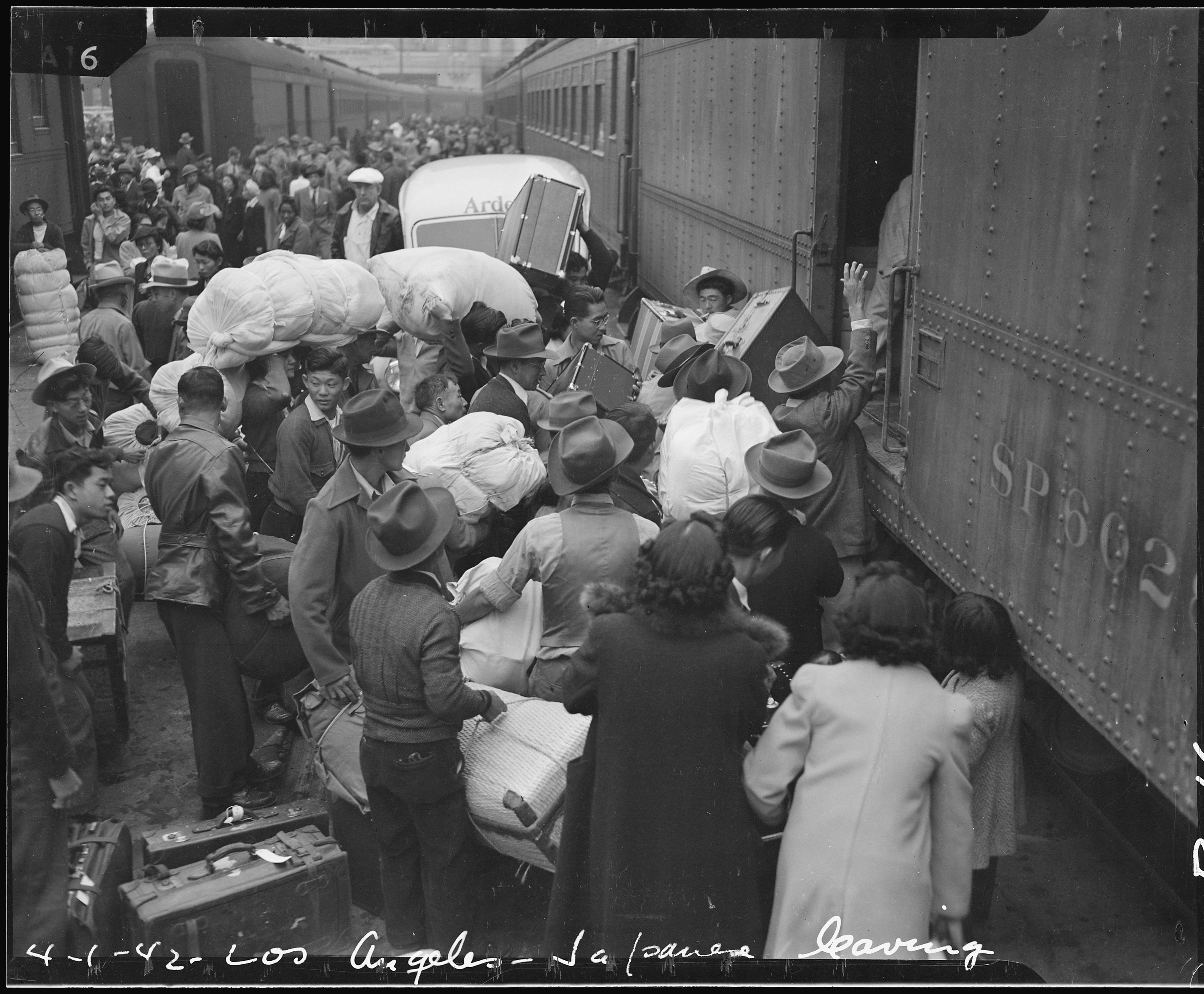 Scope and content: The full caption for this photograph reads: Los Angeles, California. Evacuees of Japanese ancestry entraining for Manzanar, California, 250 miles away, where they are now housed in a War Relocation Authority center.